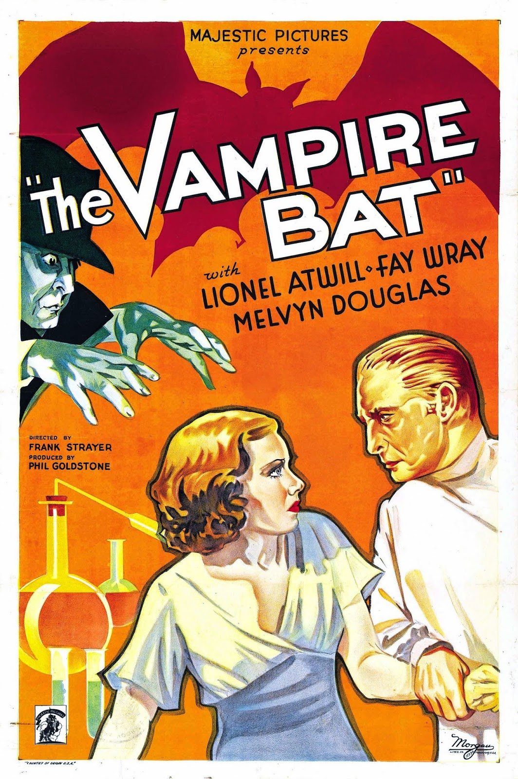 Poster for the 1933 film The Vampire Bat. The item has no copyright markings on it as can be seen in the links above. At lower right is a logo for the Morgan Litho Company--they printed the poster. At lower left is Country of origin USA.